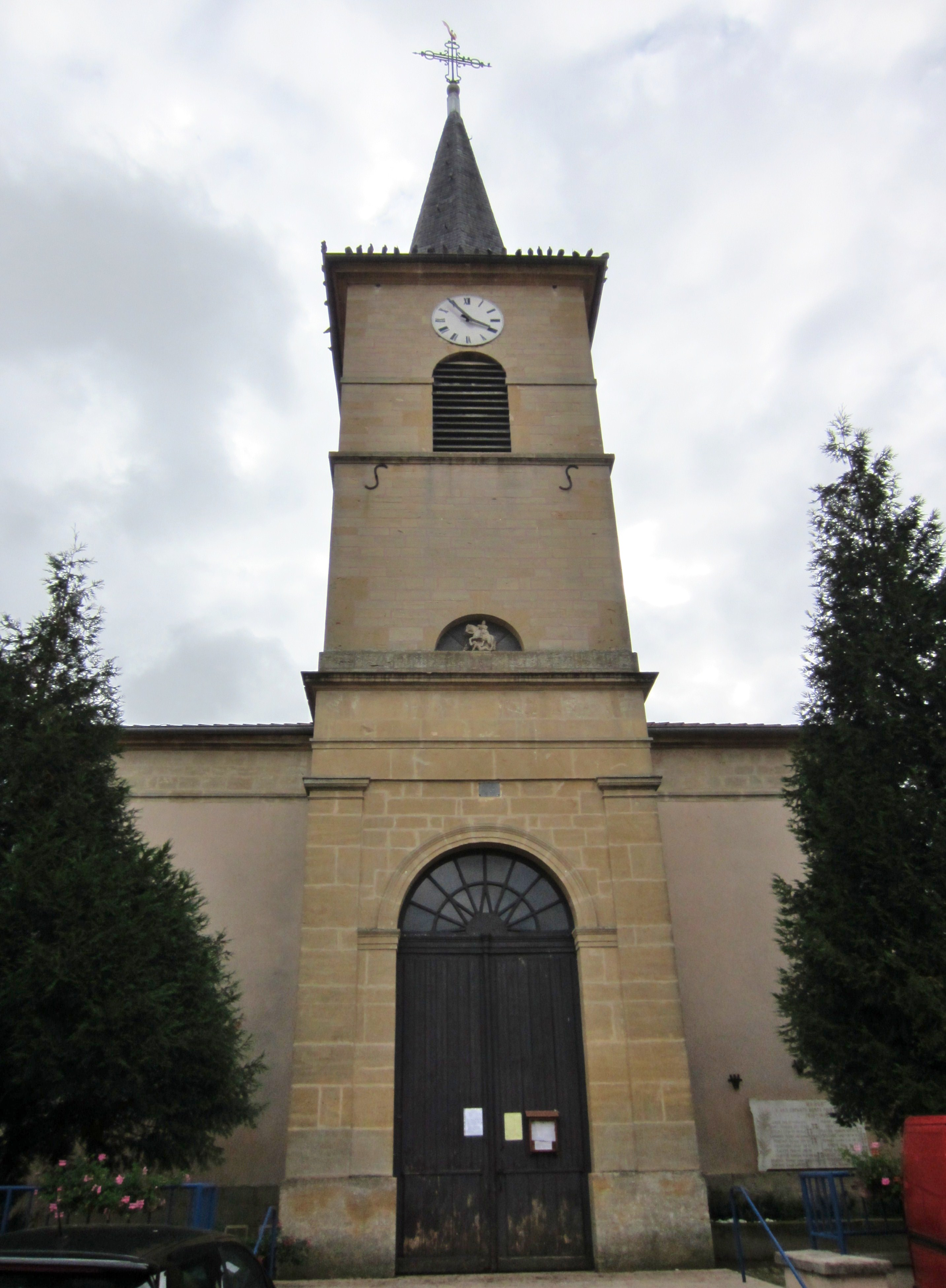 Description eglise Mance Date21 September 2011Sourcemon appareil photoAuthorAimelaime eglise Mance